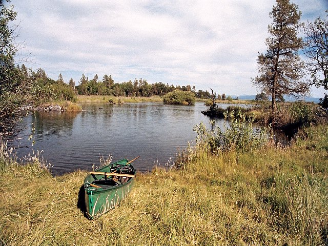 Ahjumawi Lava Springs State Park, Shasta Cunty. CA. USAPhoto taken from Ja-she campground, looking east.